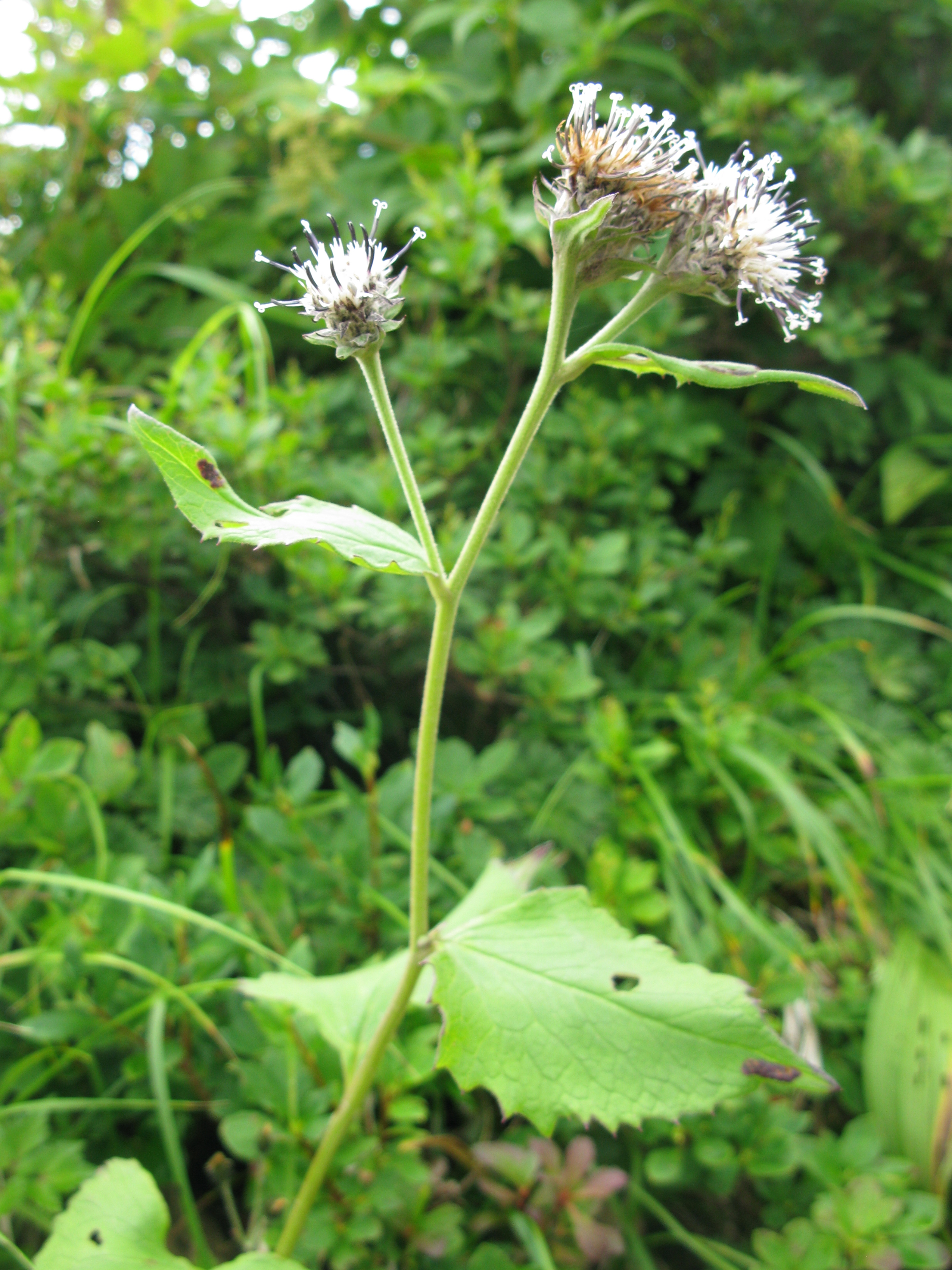 Saussurea franchetii, Mount Gassan, Yamagata pref., Japan